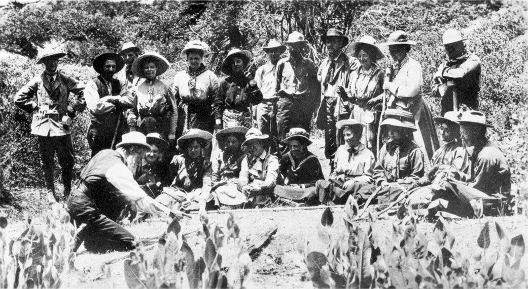 John Muir in the front left, teaching a group in Muir Woods.